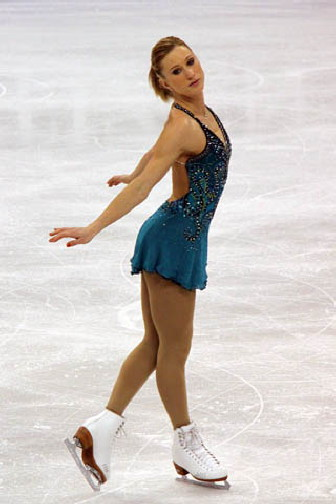 Joannie Rochette (CAN) performs her free skate at the 2009 World Figure Skating Championships.